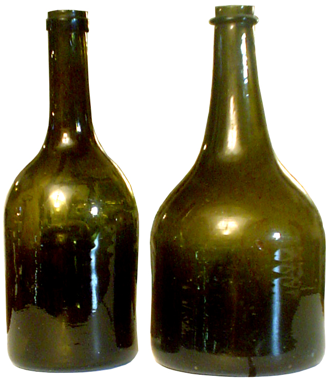 Two bottles for Maas wine, called "thieves", 18th century, at the Gourmet museum, Hermalle-sous-Huy, Belgium